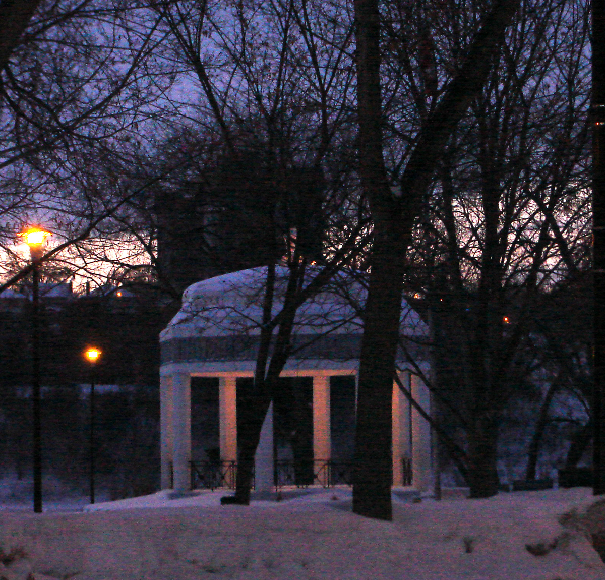 Saskatoon Heritage Society Protected Sites Vimy Memorial Bandstand in Kiwanis Memorial Park Central Business District, Saskatoon, Saskatchewan, Core Neighbourhoods SDA, Saskatoon, Saskatchewan, Canada